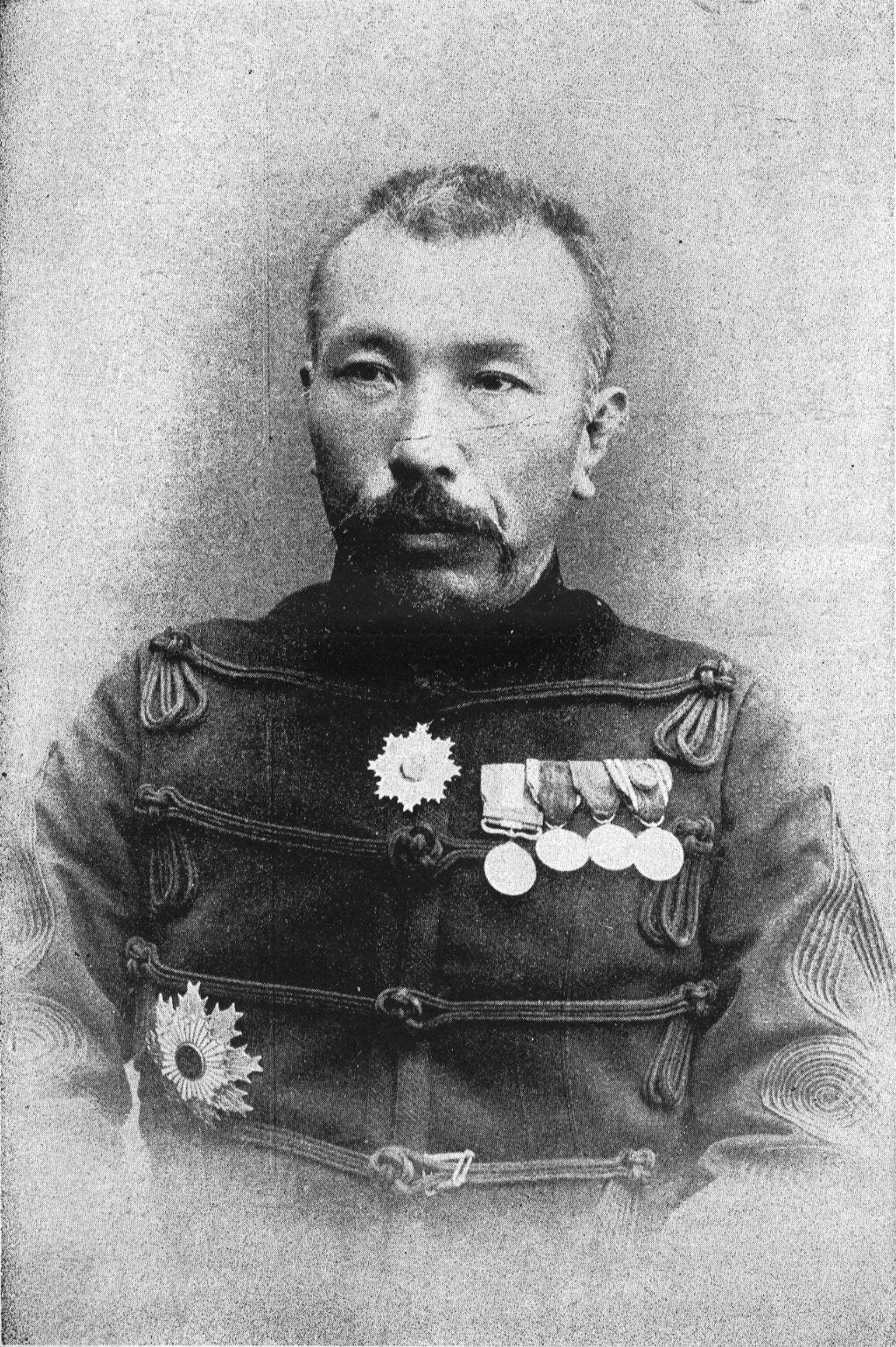 Lieut. Gen. Baron Ibaraki Koreaki, the Commander of the 6th Division.